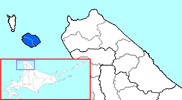 The location of Rishiri District in Soya Subprefecture, Hokkaido Prefecture, Japan.